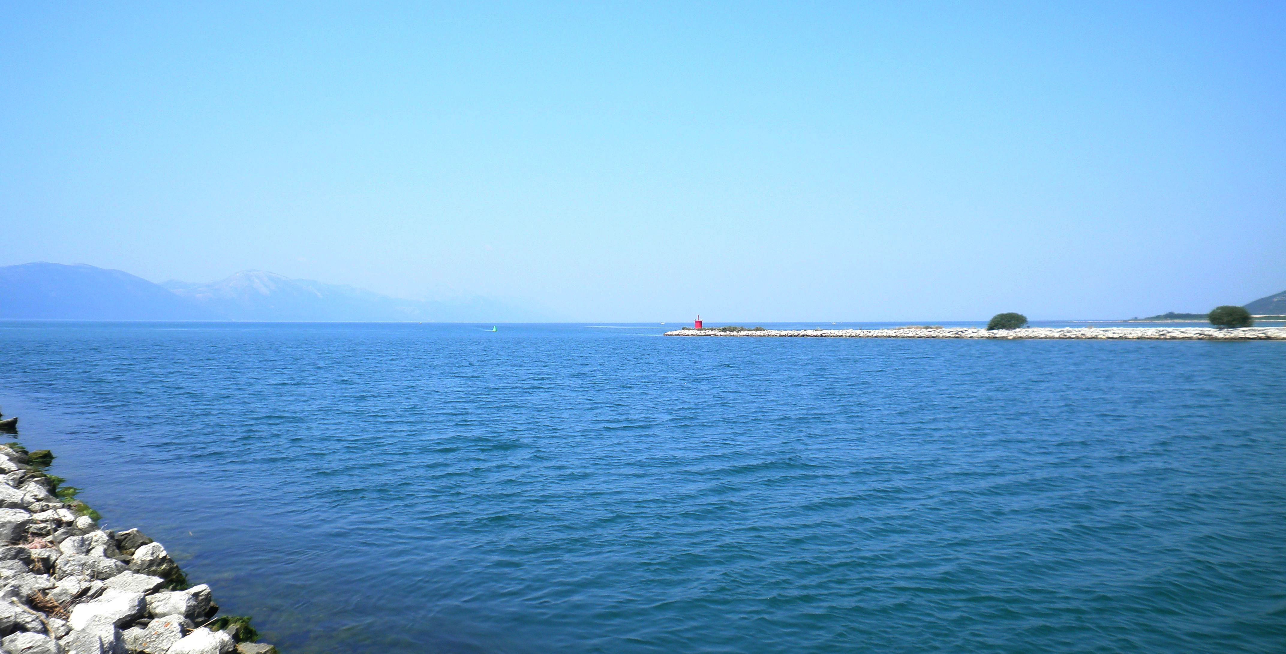 The Neretva river estuary into Adriatic sea